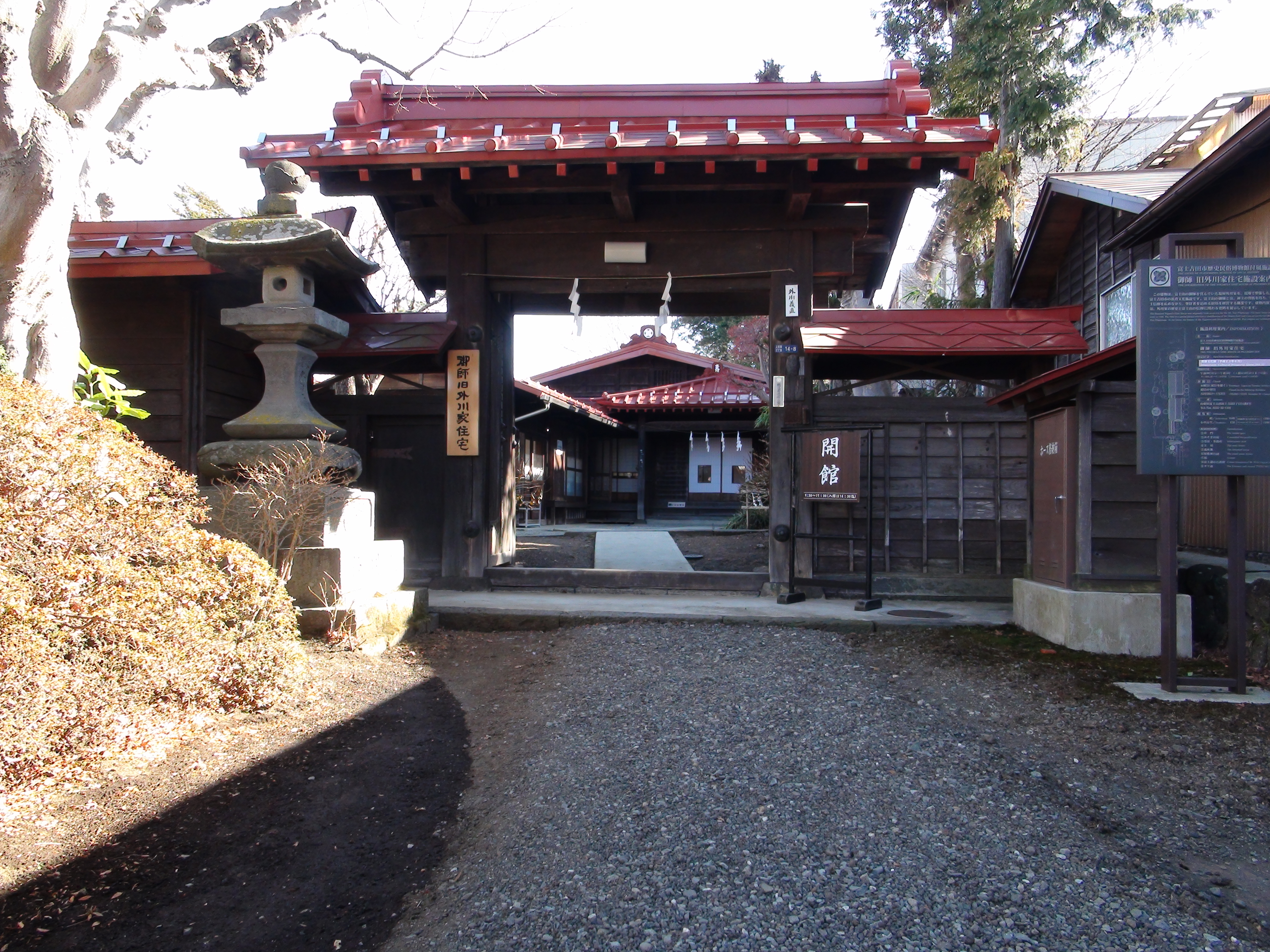 The former-Togawa family house.This is the house of OSHI who was the religious coordinator and supported the faith of Mt.Fuji